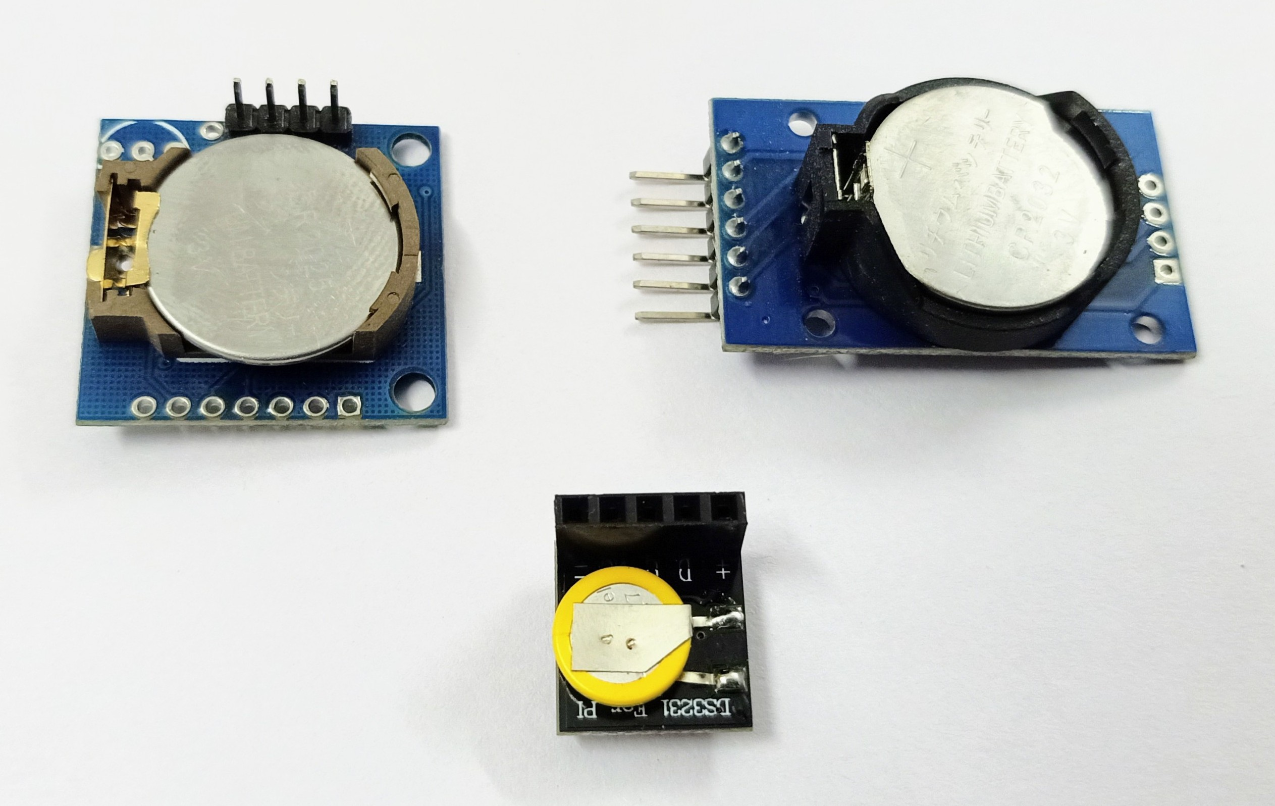 different type of real-time-clock modules